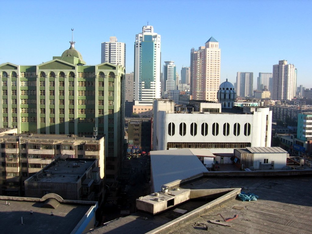 Urumqi is the capital of the Xinjiang Uygur Autonomous Region of the People's Republic of China.